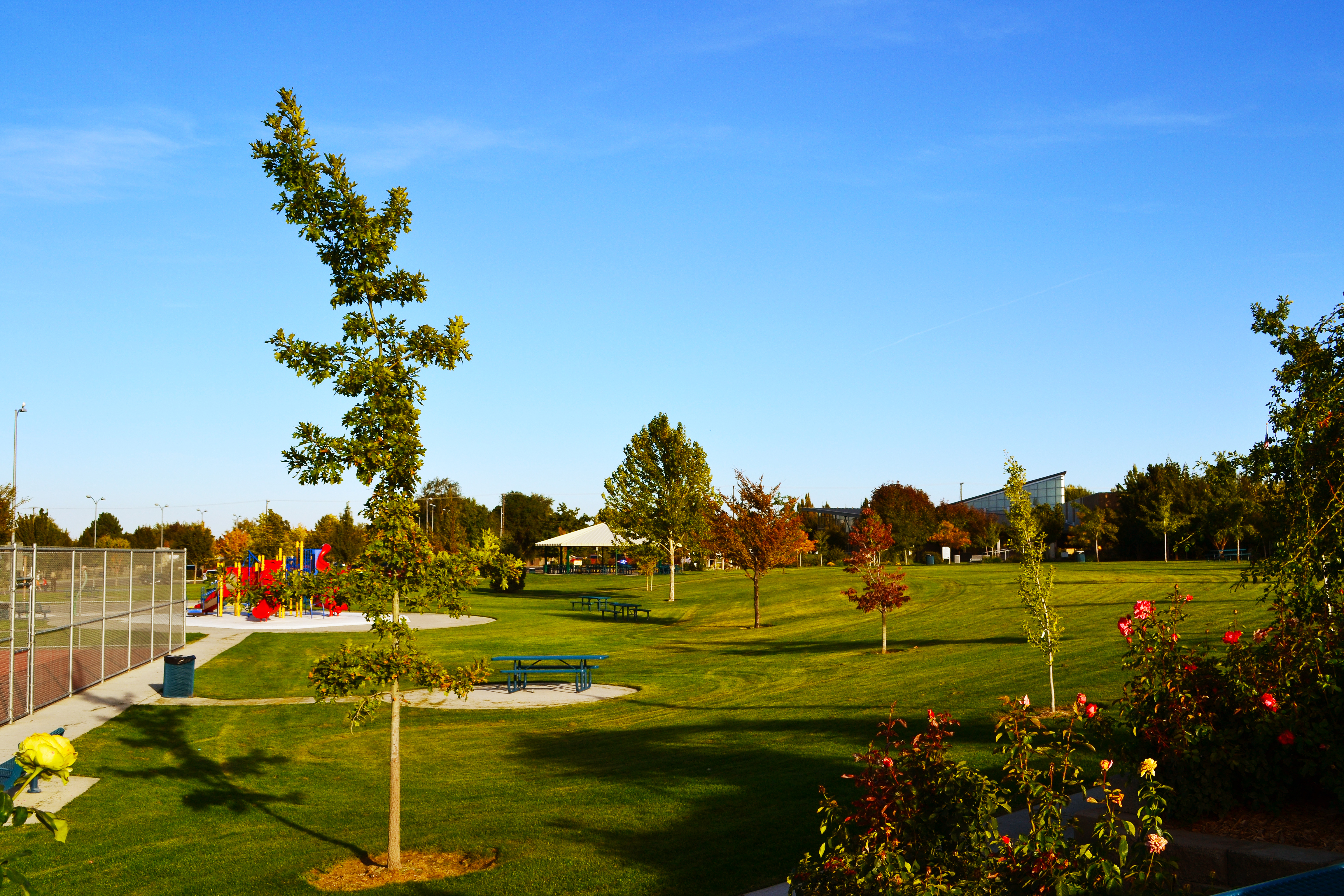 Photocredit: Thomas Holland